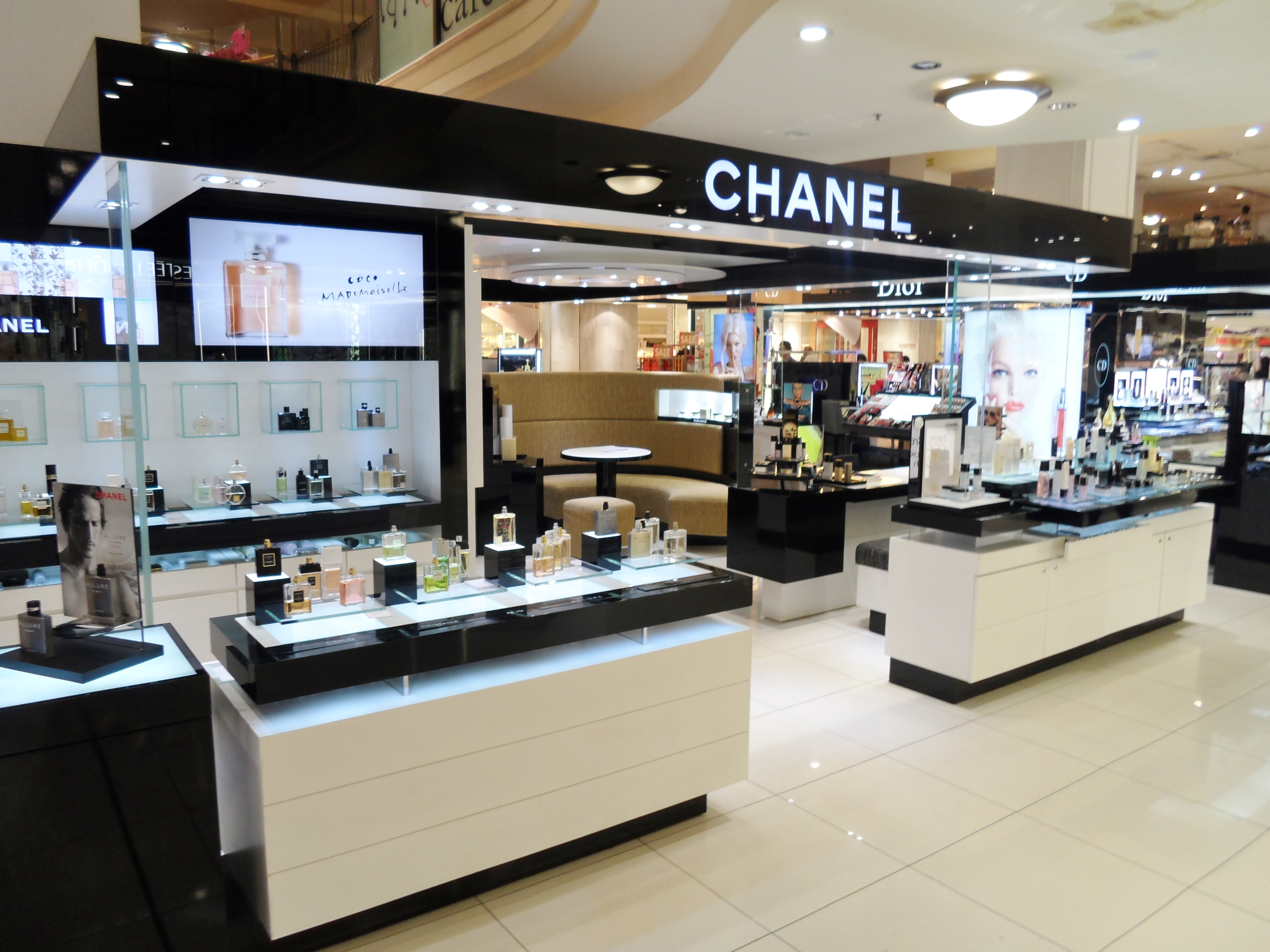 French luxury brand Chanel's Fragrance and Skincare counter at the Sydney City branch of Australian department store MYER in 2013. Summary French luxury brand Chanel's Fragrance and Skincare counter at the Sydney City branch of Australian department store MYER in 2013.